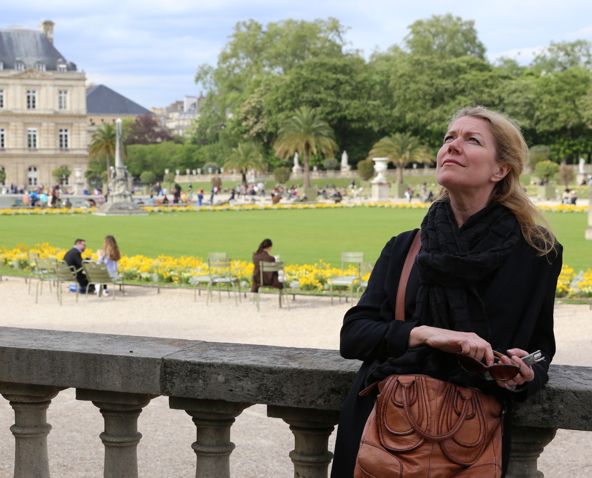 Graphic designer Amanda Wärff in Paris 2018